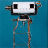 Phoenix Spacecraft ssi